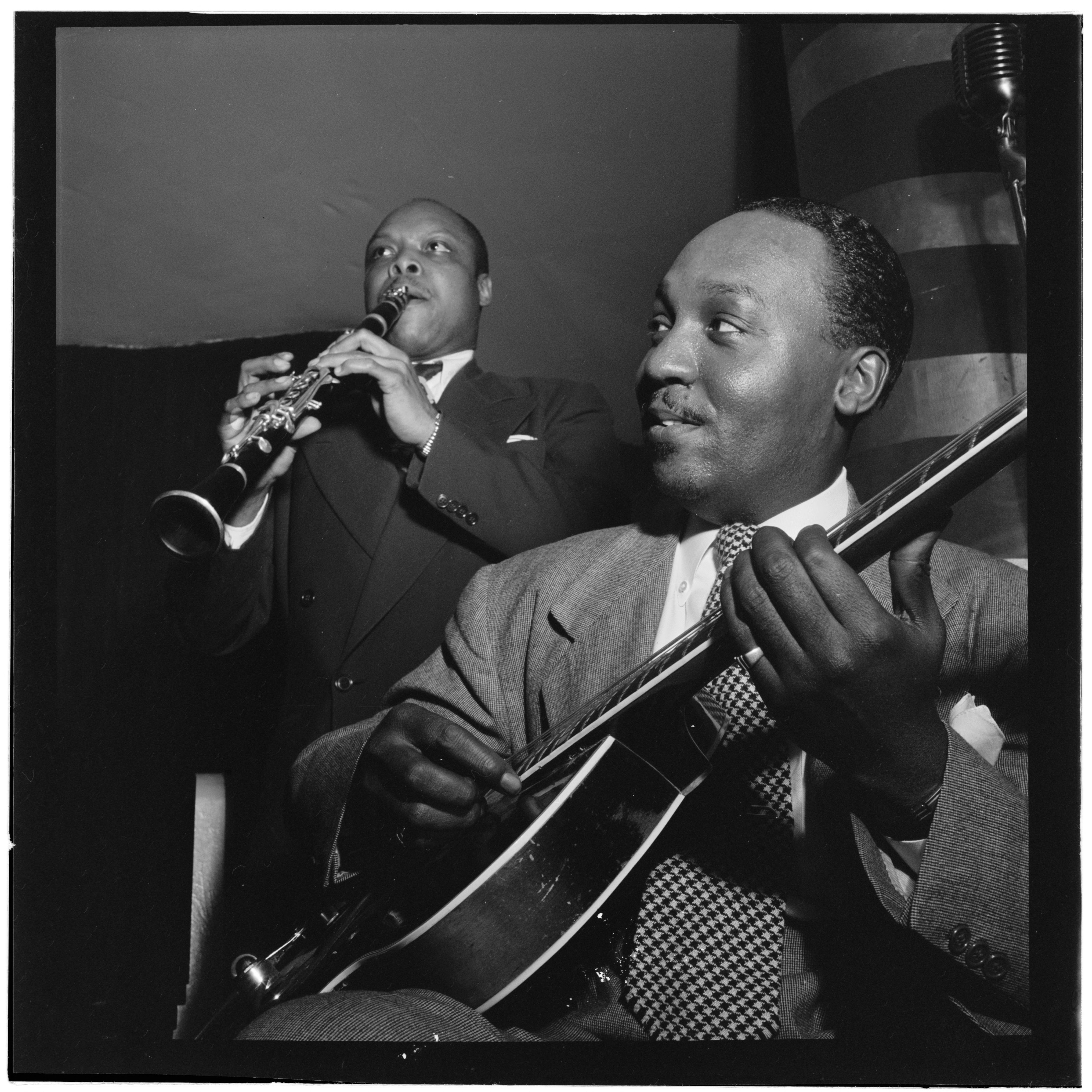 Gottlieb, William P., 1917-, photographer. [Portrait of Al Casey and Eddie (Emmanuel) Barefield, Café Society (Downtown), New York, N.Y., between 1946 and 1948] 1 negative : b&w ; 2 1/4 x 2 1/4 in. Notes: Gottlieb Collection Assignment No. 056 Reference print available in Music Division, Library of Congress. Purchase William P. Gottlieb Forms part of: William P. Gottlieb Collection (Library of Congress). Subjects: Casey, Al Barefield, Eddie (Emmanuel) Jazz musicians--1940-1950. Guitarists--1940-1950. Clarinetists--1940-1950. Café Society (Downtown) Format: Portrait photographs--1940-1950. Group portraits--1940-1950. Film negatives--1940-1950. Rights Info: Mr. Gottlieb has dedicated these works to the public domain, but rights of privacy and publicity may apply. Repository: (negative) Library of Congress, Prints & Photographs Division, Washington D.C. 20540 USA, (contact print) Library of Congress, Prints & Photographs Division, Washington D.C. 20540 USA, (reference print) Library of Congress, Music Division, Washington D.C. 20540 USA, Part Of: William P. Gottlieb Collection (DLC) 99-401005 General information about the Gottlieb Collection is available at Persistent URL: Call Number: LC-GLB23- 0116 This work is from the William P. Gottlieb collection at the Library of Congress. Rights and restrictions.In accordance with the wishes of William Gottlieb, the photographs in this collection entered into the public domain on February 16, 2010.